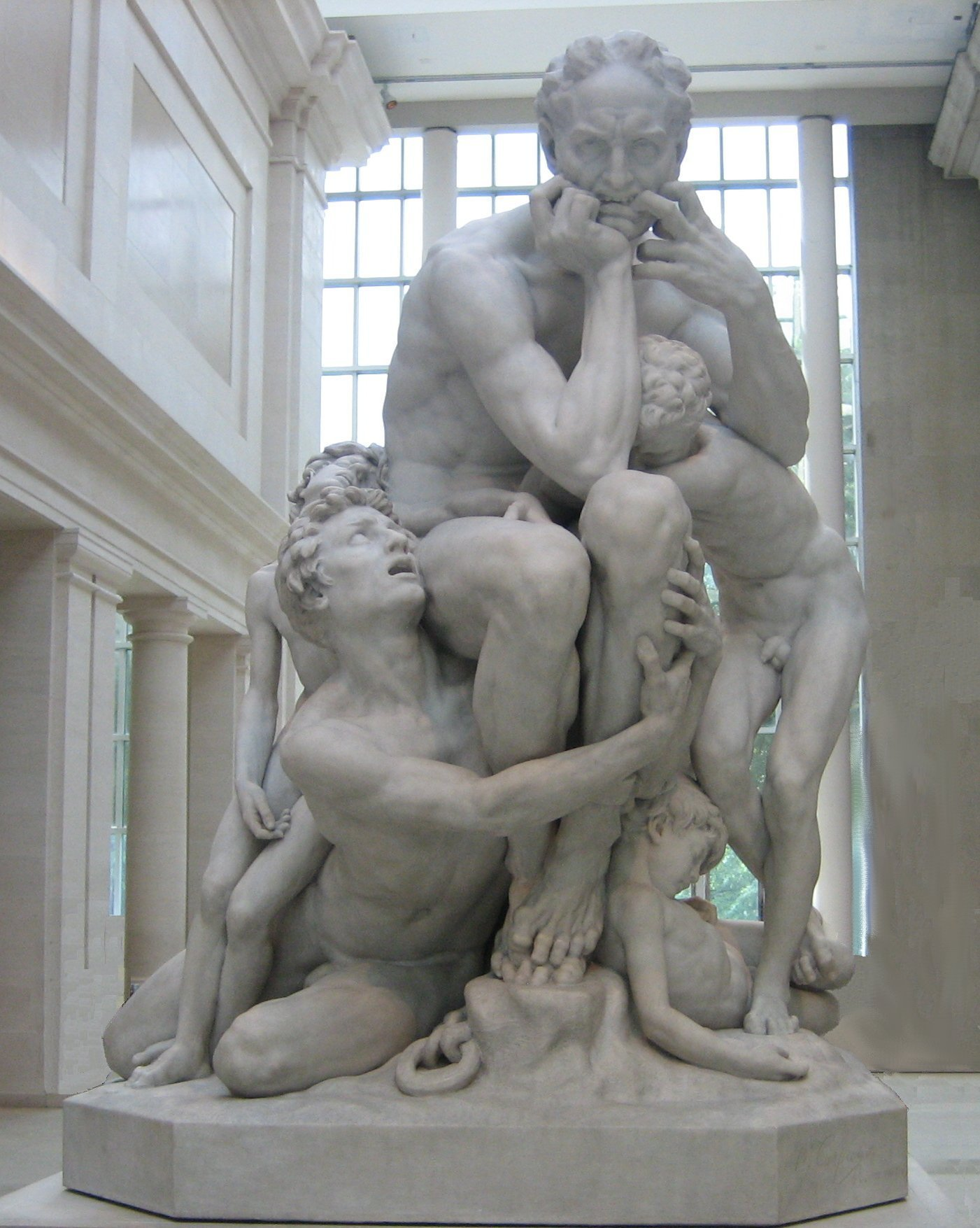 Jean-Baptiste Carpeaux's marble sculpture 'Ugolino and his Sons', Metropolitan Museum of Art